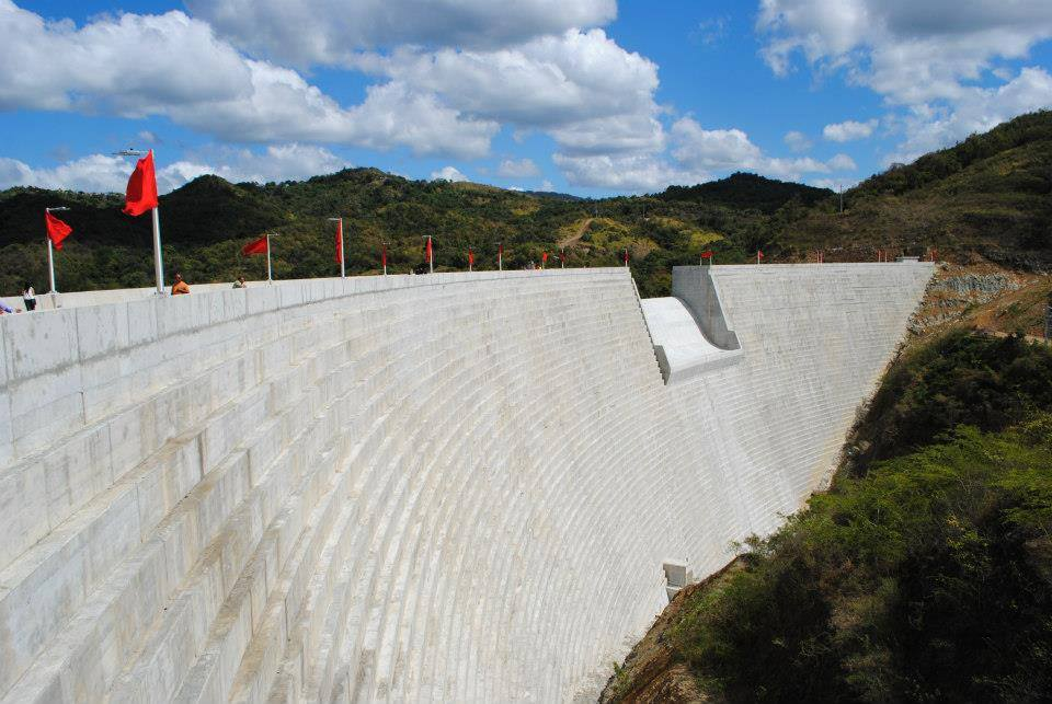 A view of the recently completed Portugues Dam as it looks before a dedication ceremony held on Feb. 5. The dam, located near Ponce, Puerto Rico, is designed to reduce the impacts of flooding along the Portugues River.